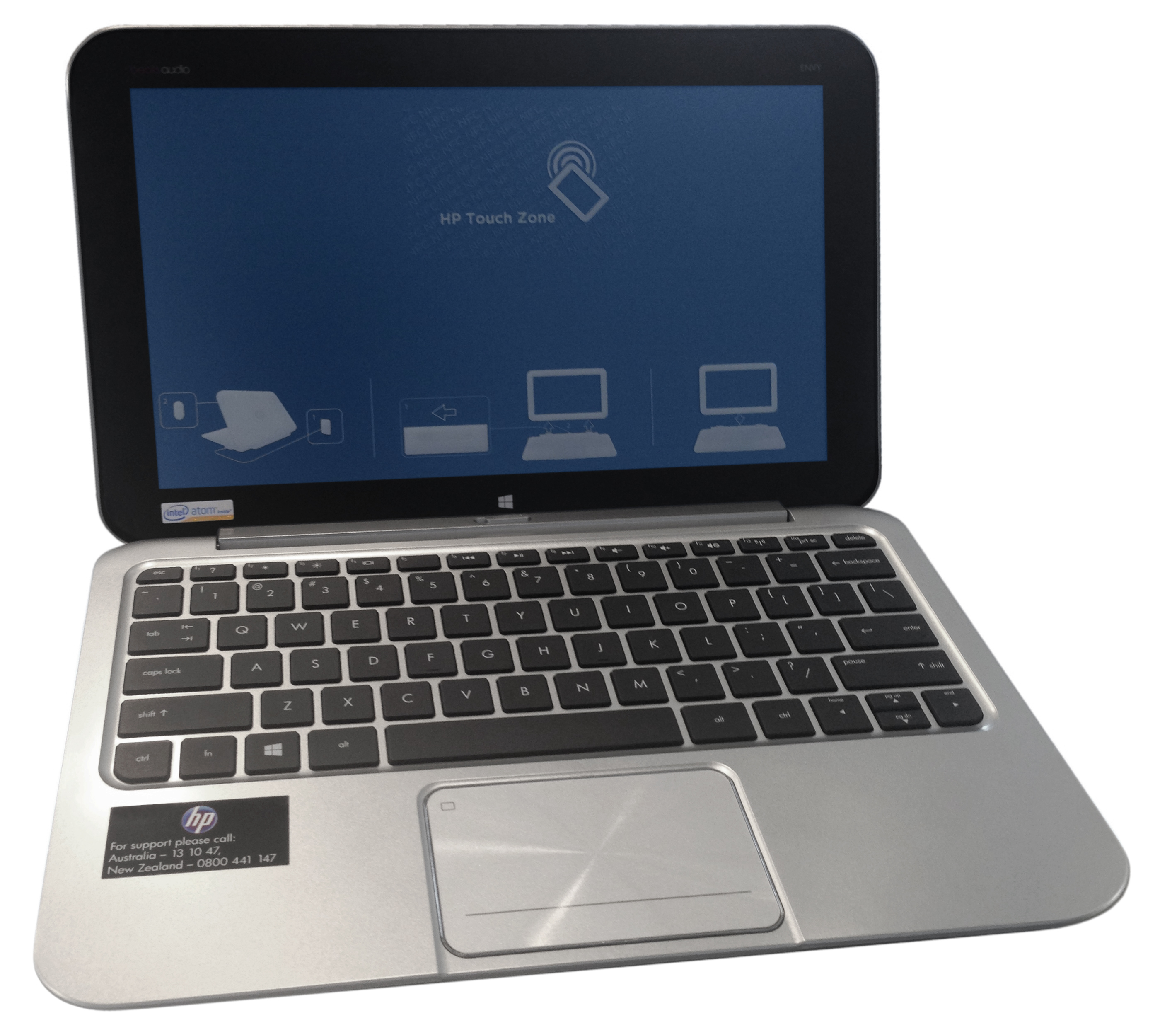 HP Envy X2 IMG_8836